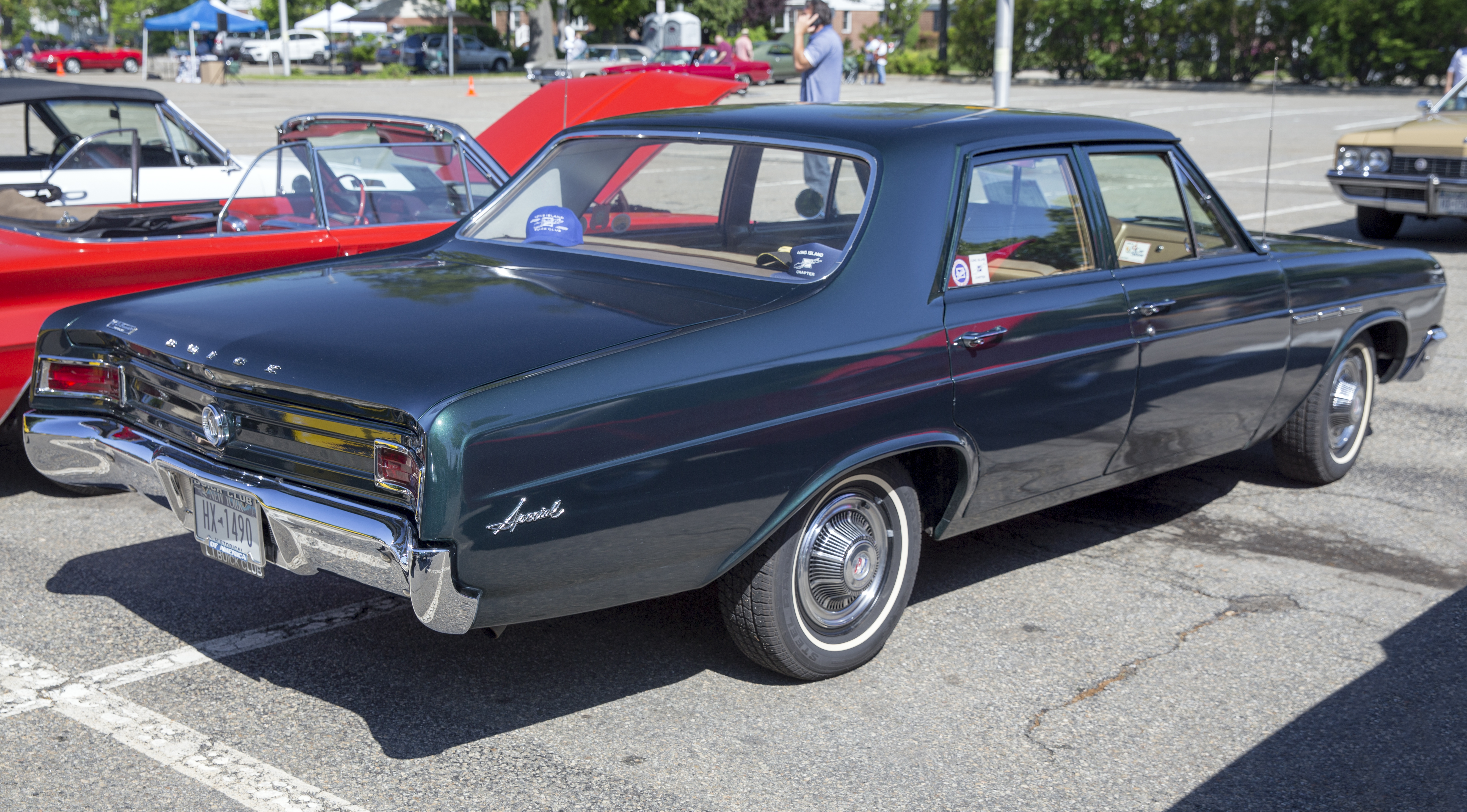 A 1965 Buick Special 4-door Town Sedan (what Buick called the sedan with a B-pillar, as distinct from the four-door hardtop) with the 225ci V6 engine, assembled in Flint, MI.